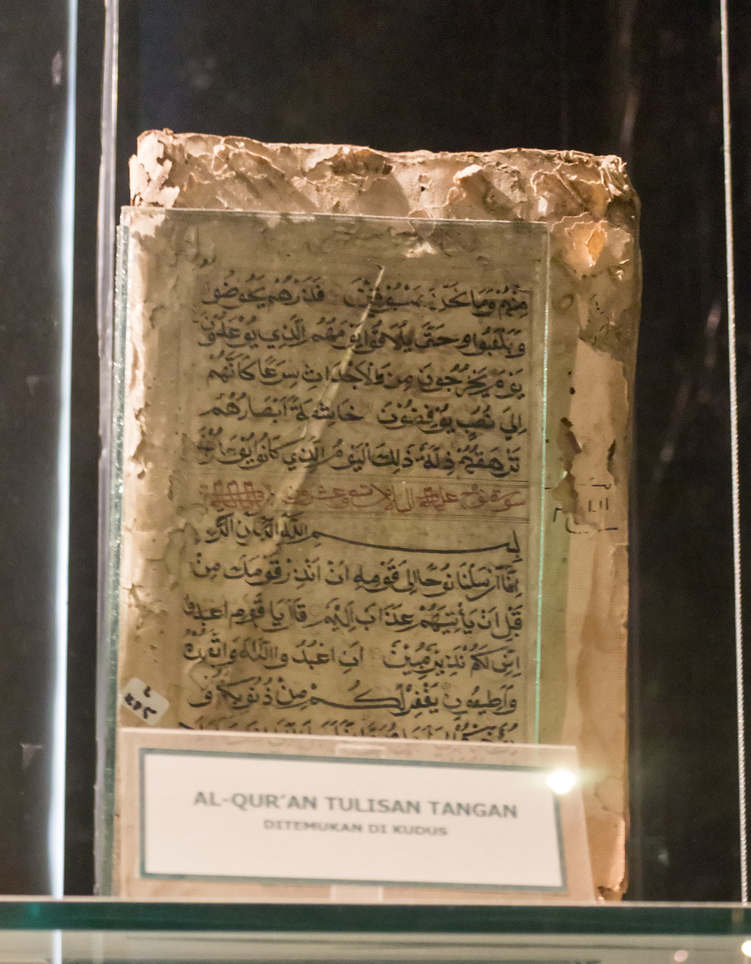 Hand-written Quran, in the collection of the Great Mosque of Central Java, 2014-06-17